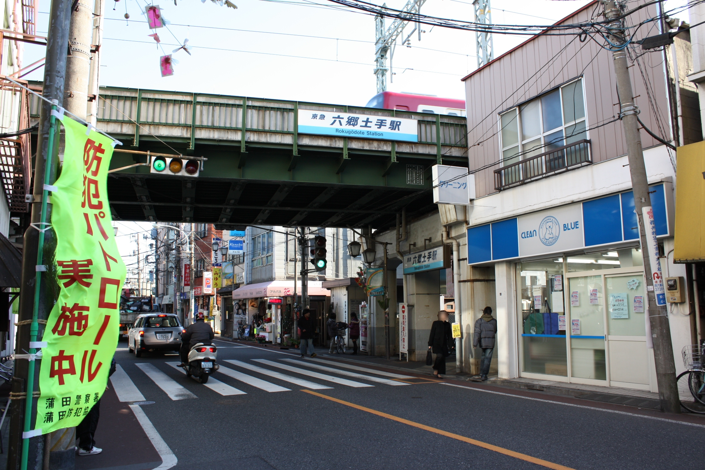 Keikyu Rokugo Dote station buiding, entrance locates under the bridge